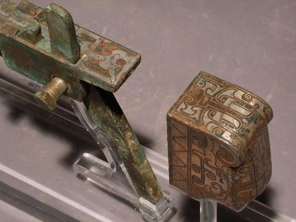 A Chinese crossbow with a buttplate from either the late Warring States Period (3rd century BC) or the early Han Dynasty (202 BC – 220 AD); made of bronze and inlaid with silver.